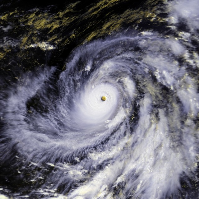 Typhoon Joan from NOAA-14. Inventory ID: NSS.GHRR.NJ.D97292.S0326.E0521.B1444344